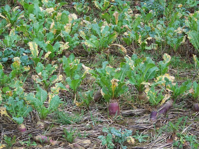 Field Turnips Field turnips near Harnham.